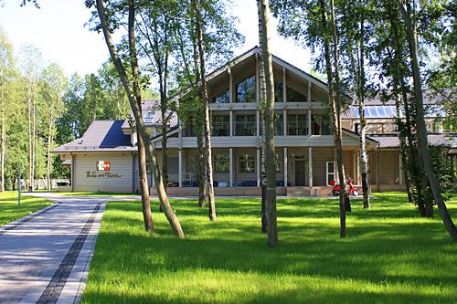 russian restaurant in woods